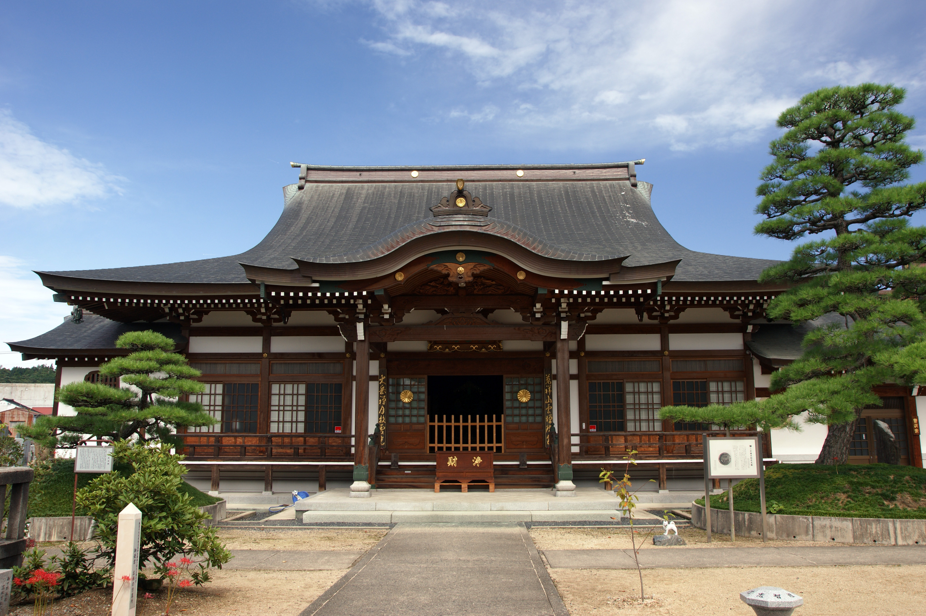 Daigakuin in Kurayoshi, Tottori prefecture, Japan